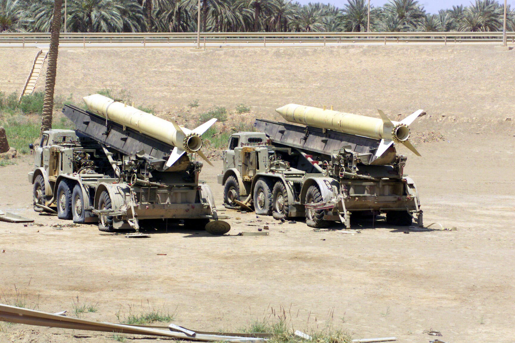 A pair of captured Russian designed Iraqi FROG-7 Surface-to-Surface artillery rockets on Republican Guard launch trucks along highway 8 near Ad Diwaniya, Iraq, during Operation IRAQI FREEDOM.